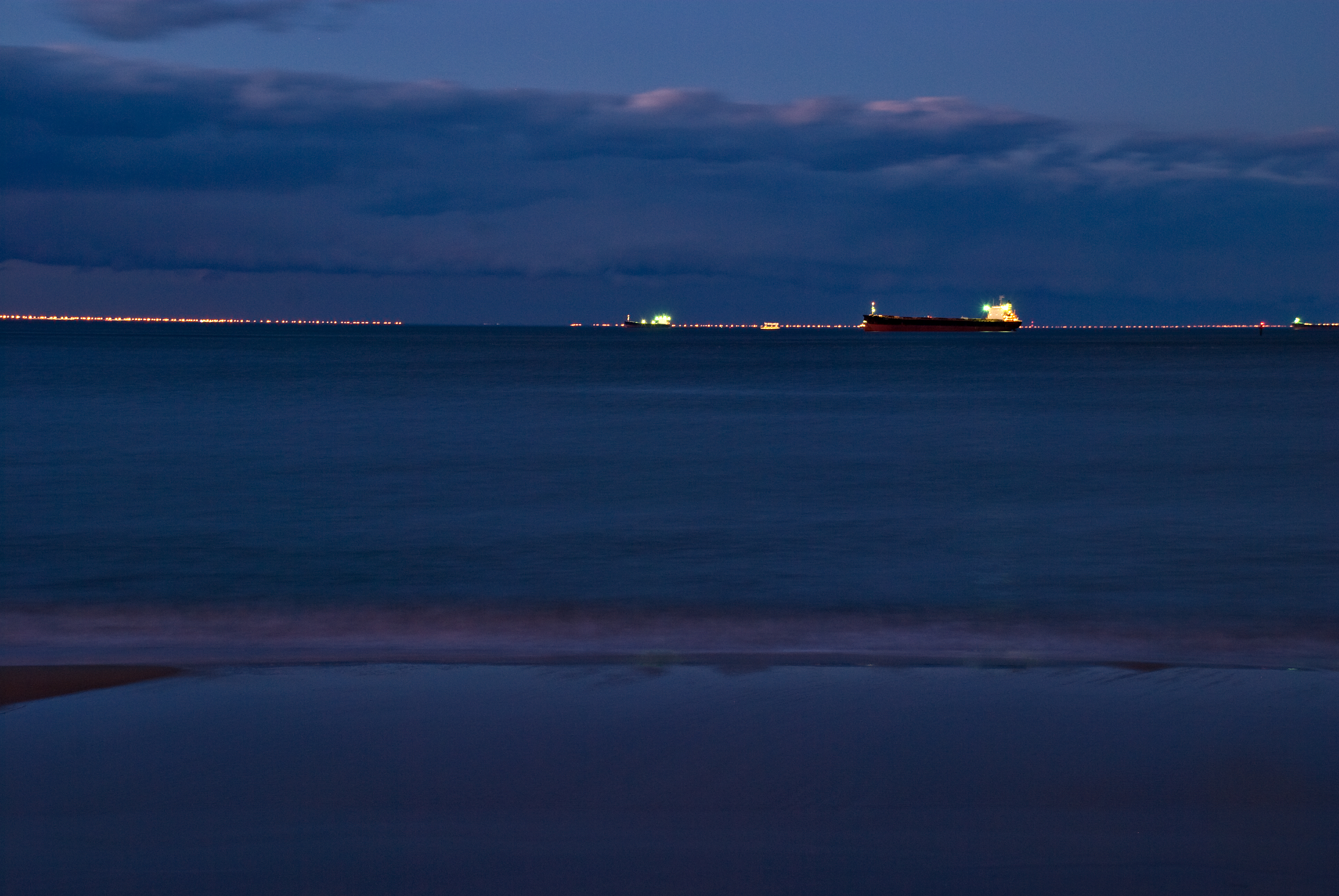 Cargo ships coming in from the Atlantic line up to pass over the Chesapeake Bay Bridge-Tunnel into the bay. It was getting dark and the shot required a 13-second exposure to match what it looked like to the eye.